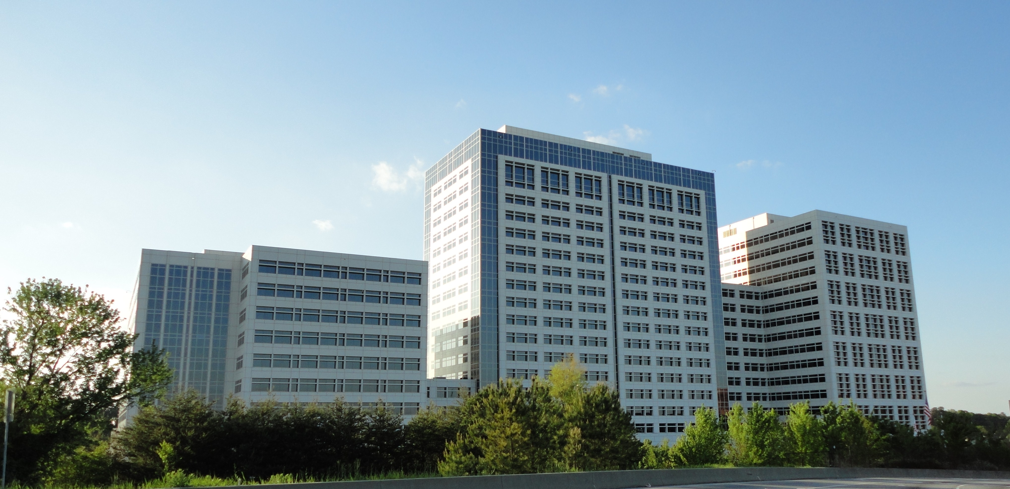 Home Depot Store Support Center & Corporate HQ in Vinings, GA